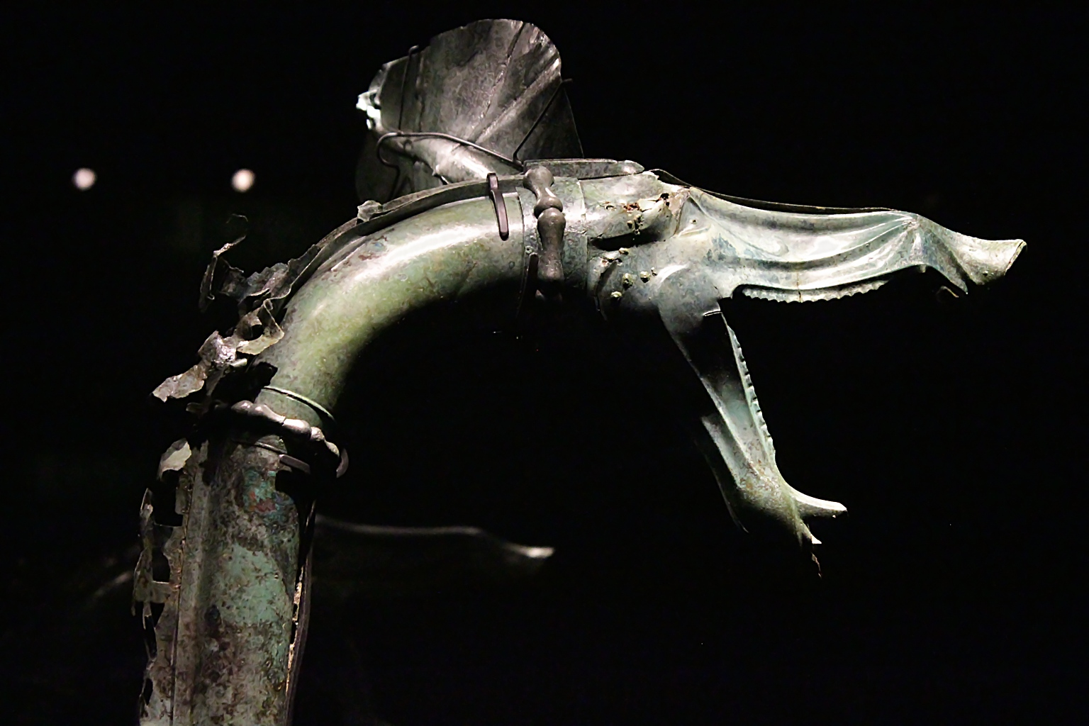 Carnyx found in the Gallic sanctuary of Tintignac (Corrèze). Cité des Sciences et de l'Industrie (Paris), "Les Gaulois, une expo renversante", from 19-10-2011 to 02-09-2012.